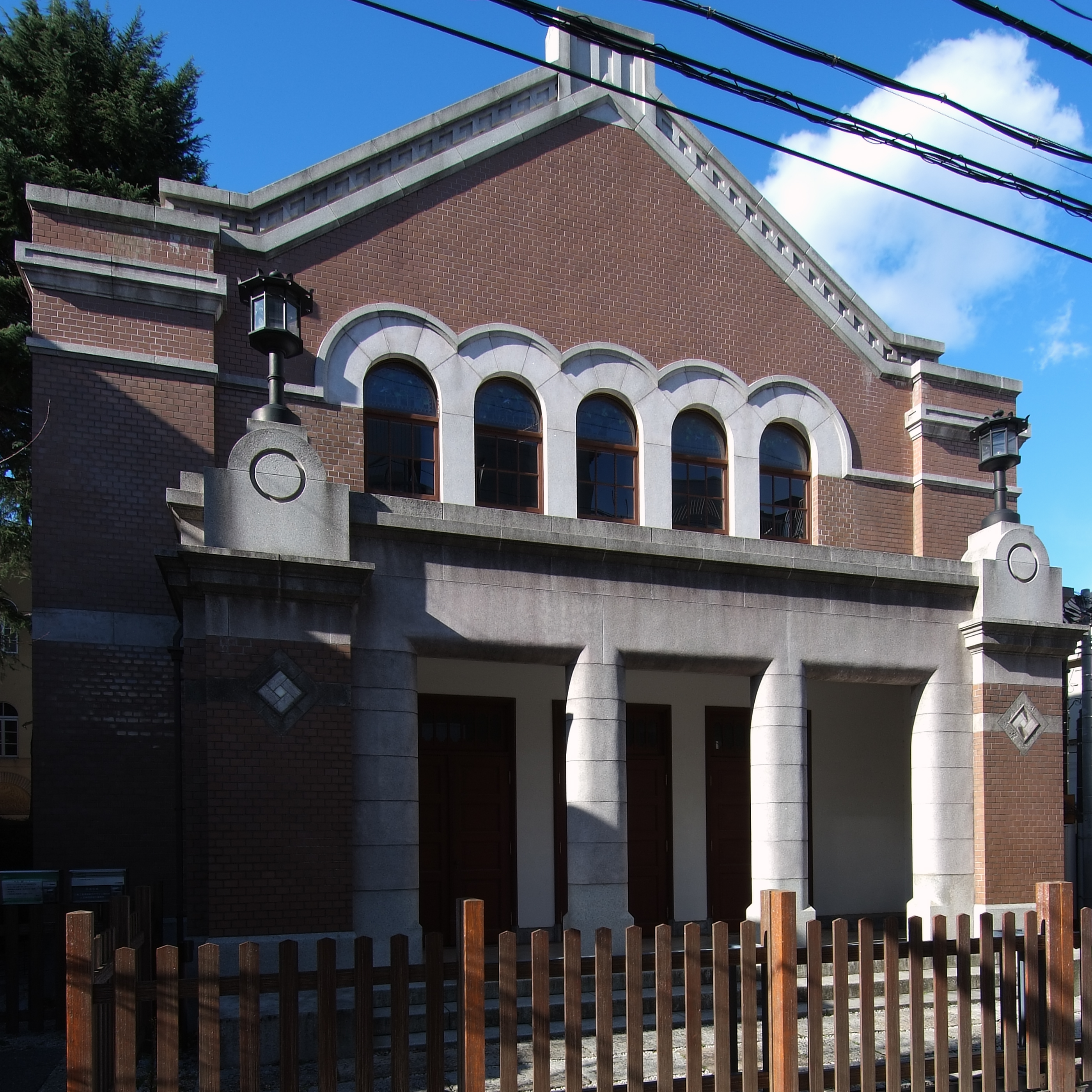 Kyudo Hall, at Hongo Tokyo Japan, design by Goichi Takeda in 1915.